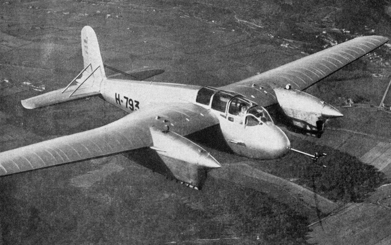 Hanriot 232 right front photo from L'Aerophile March 1940